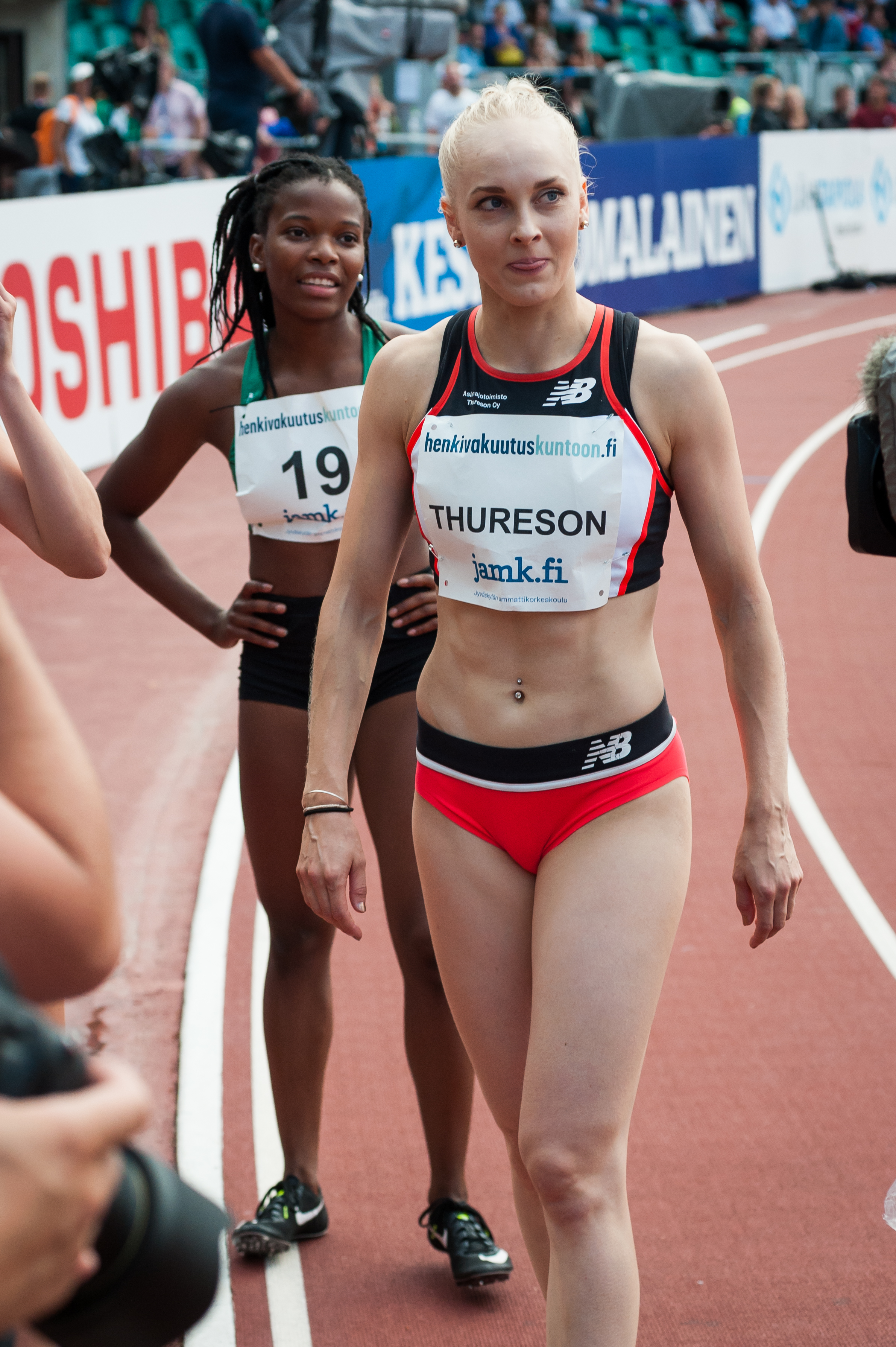 Women's 100 m competition at the 2018 Kalevan Kisat, the Finnish championships in athletics, in Jyväskylä, Finland.